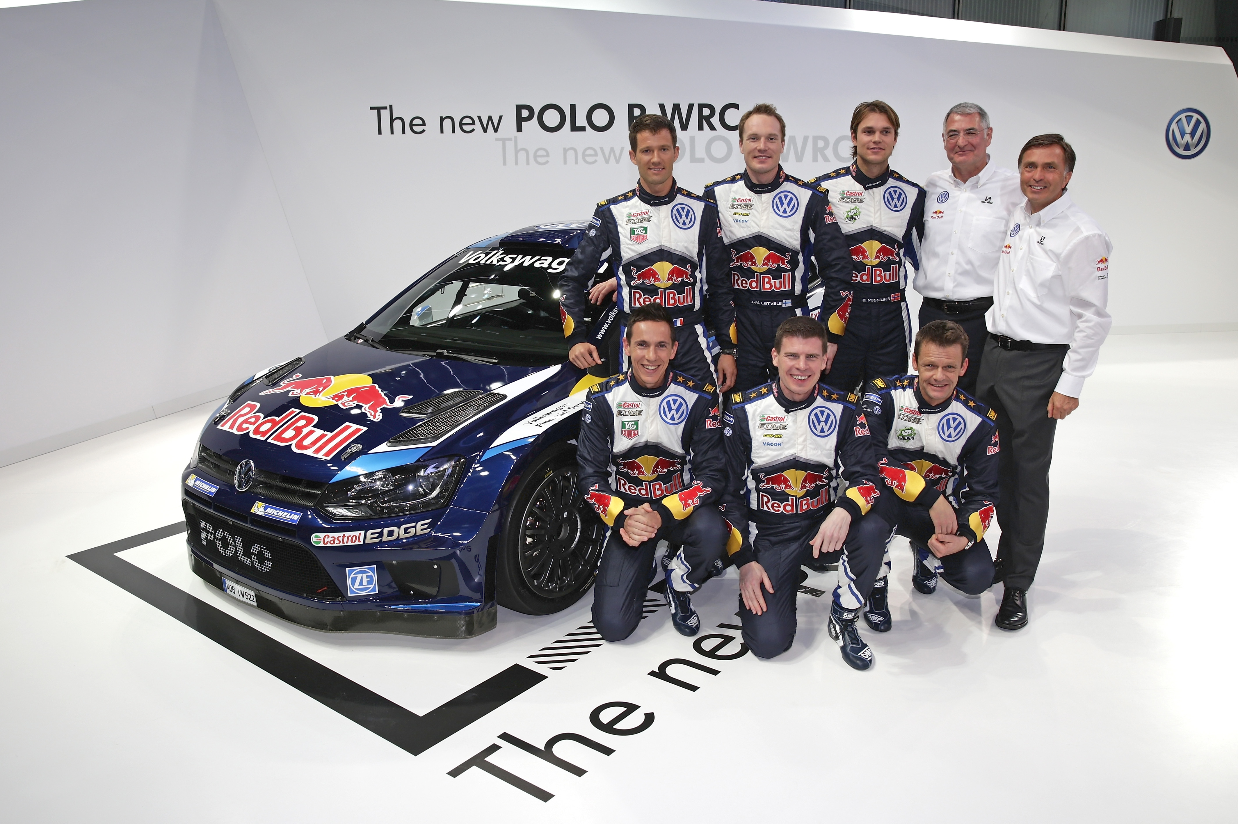 Volkswagen WRC Rally Team 2015. Back row left to right: Sébastien Ogier, Jari-Matti Latvala, Andreas Mikkelsen, Heinz-Jakob Neußer (VW AG development chief) and Jost Capito (team principal). Front row left to right: Julien Ingrassia (co-driver Ogier), Miikka Anttila (co-driver Latvala) and Ola Fløene (co-driver Mikkelsen).